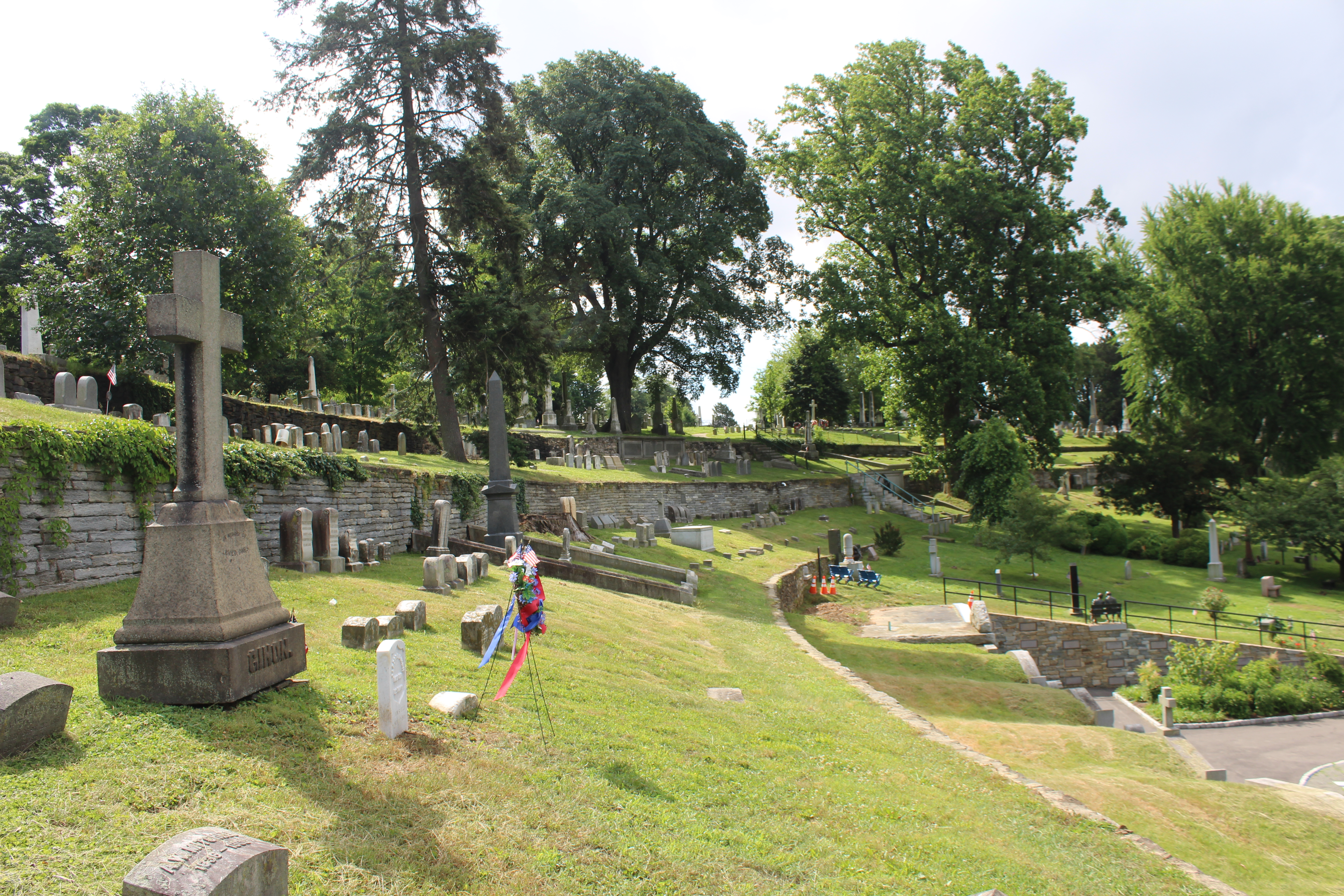 River terrace section of Laurel Hill Cemetery. Photo taken June 2020.